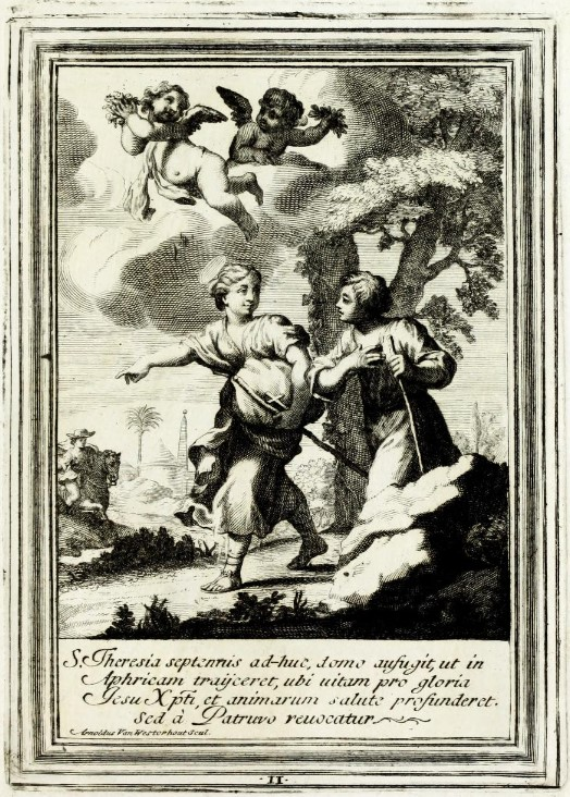 Plate 6 from Arnold van Westerhout's Vita effigiata della serafica vergine S. Teresa di Gesu, fondatrice dell'Ordine Carmelitano Scalzo, published in 1719 in Rome by Arnold van Westerhout. The illustrations were made and engraved by Arnold van Westherhout. They depict events in the life of the Catholic Saint Teresa of Ávila.